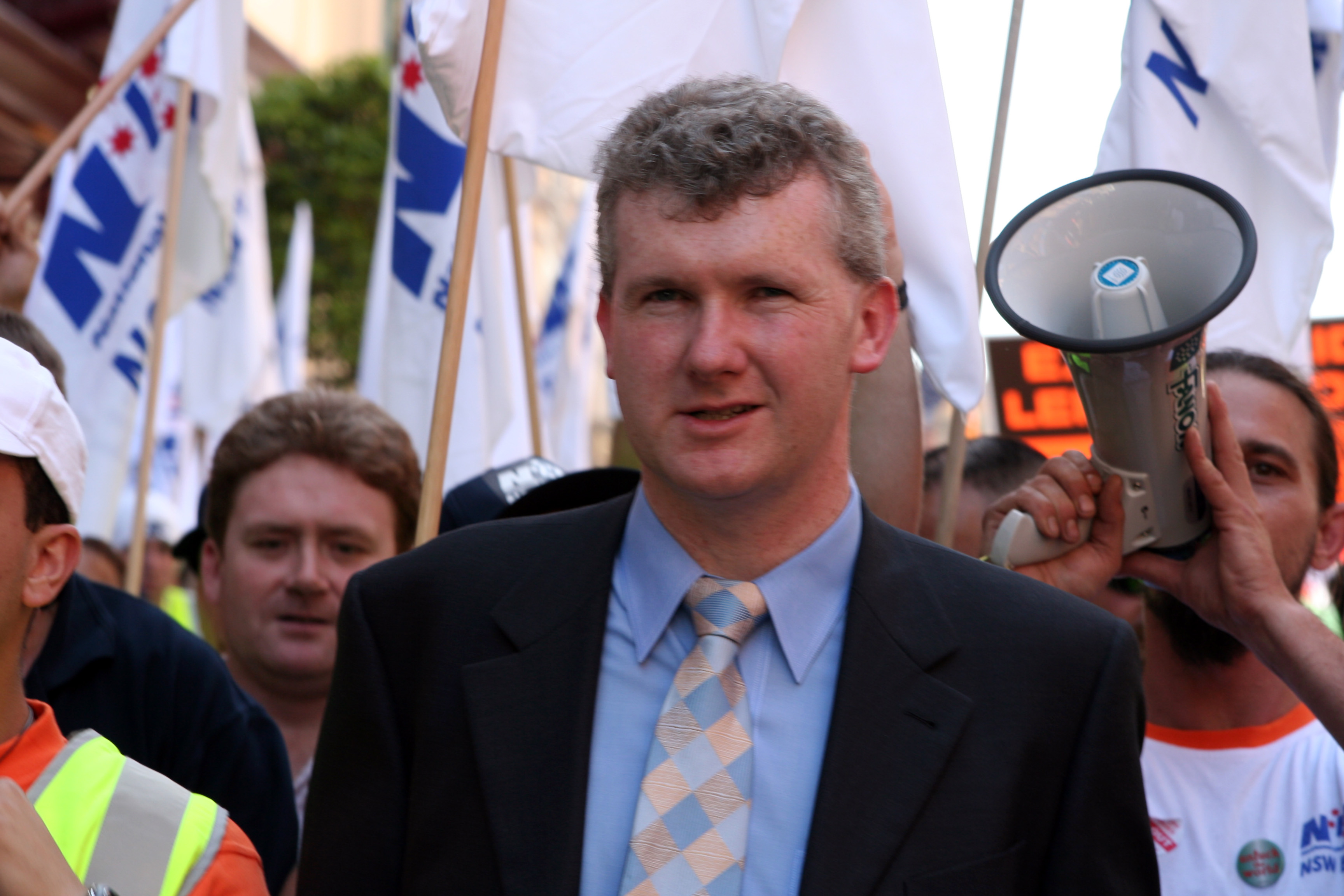 This photo is relevant to the Australia NSW Sydney IRProtest.